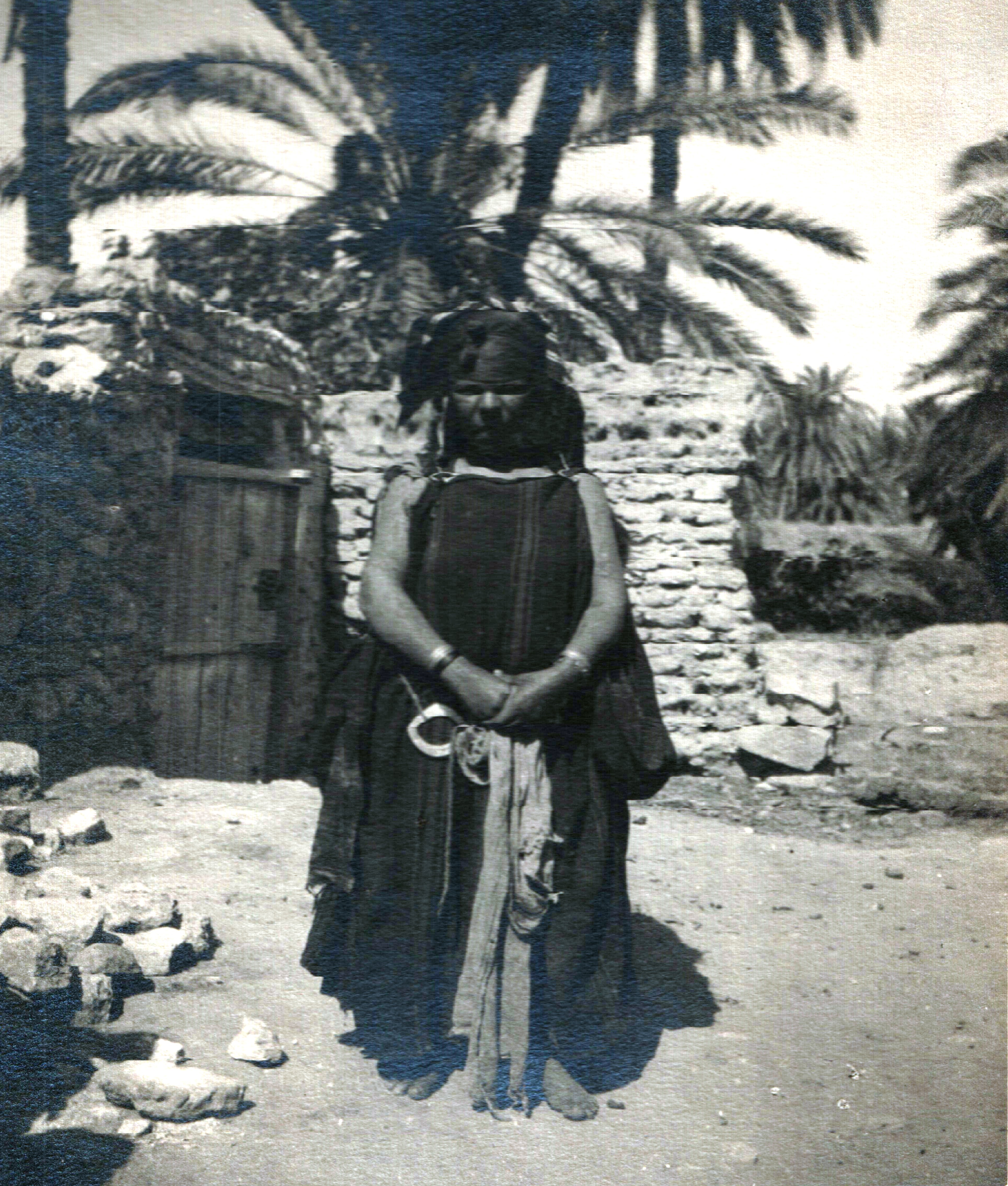 Views and photos of the Sahara desert and other regions in Africa.